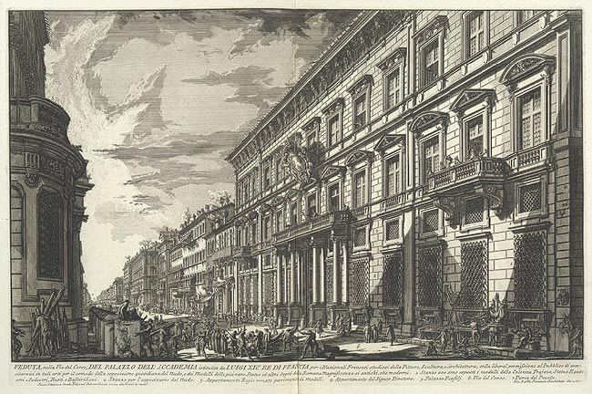 "View of the Palazzo Mancini", Rome (Italy), the seat of the French Academy since 1725